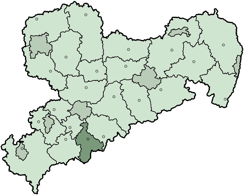 Map of the state Saxony in Germany before 2008, district Annaberg highlighted.